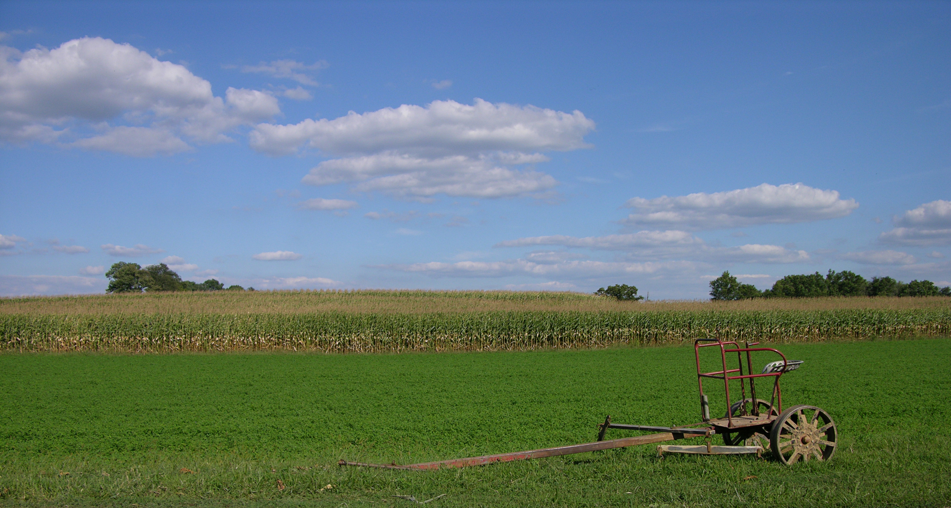 A picture of a typical corn field from Lancaster County, Pennsylvania showing a farm implement in the foreground.